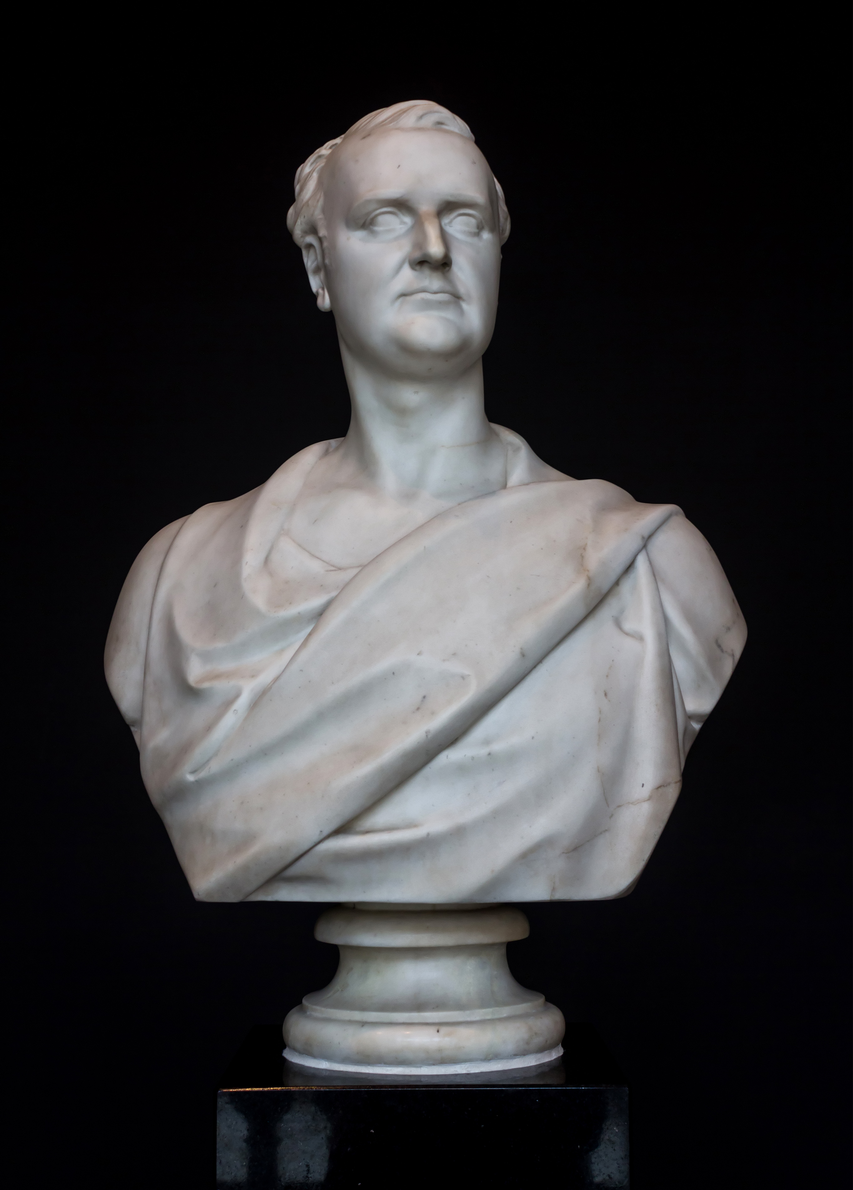 Bust of Sir Redmond Barry (1860), State Library of Victoria, Melbourne, 2017-10-29. Bust by Charles Summers (1825-1878)